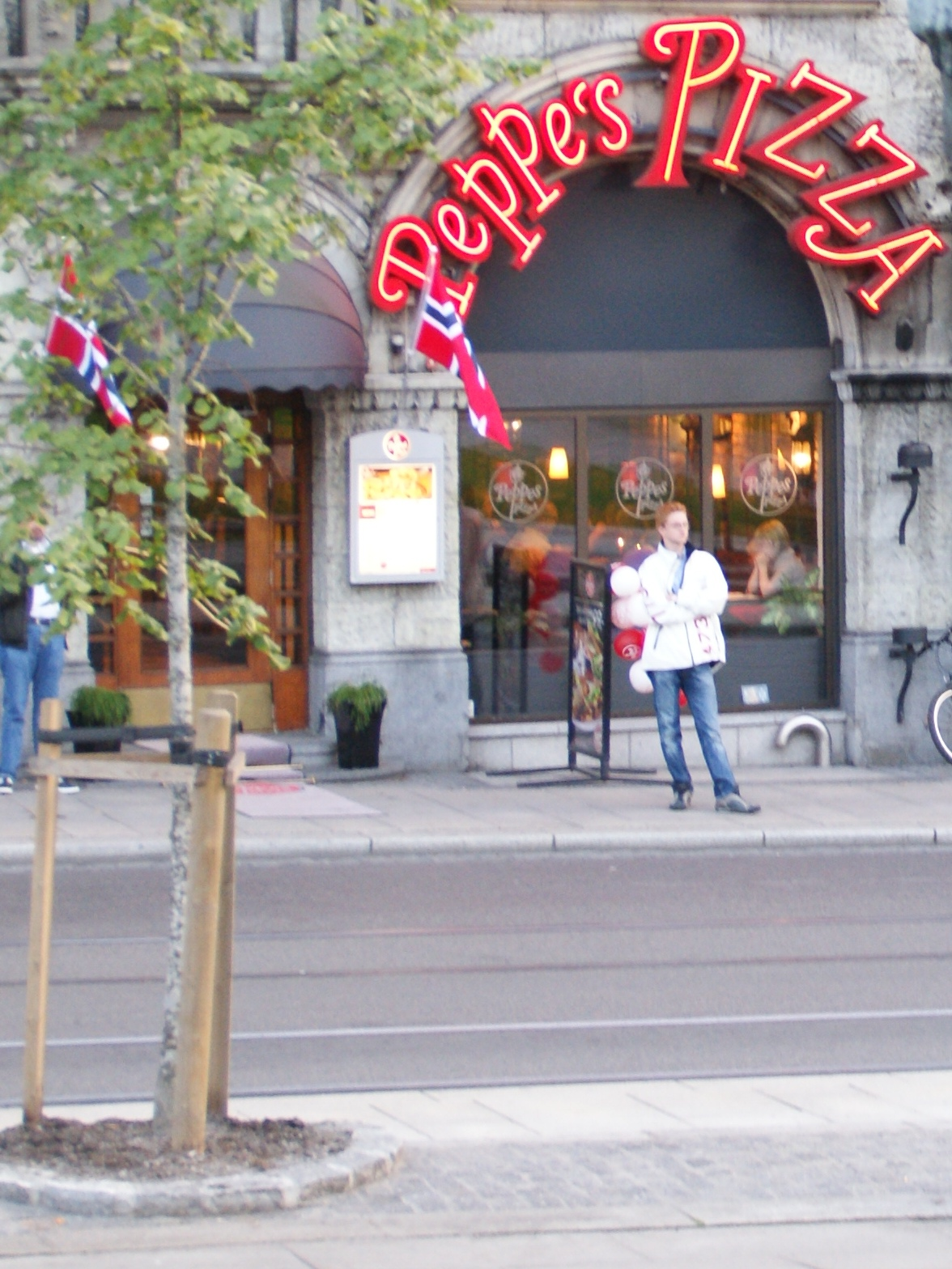 Peppes Pizza restaurant in Oslo.